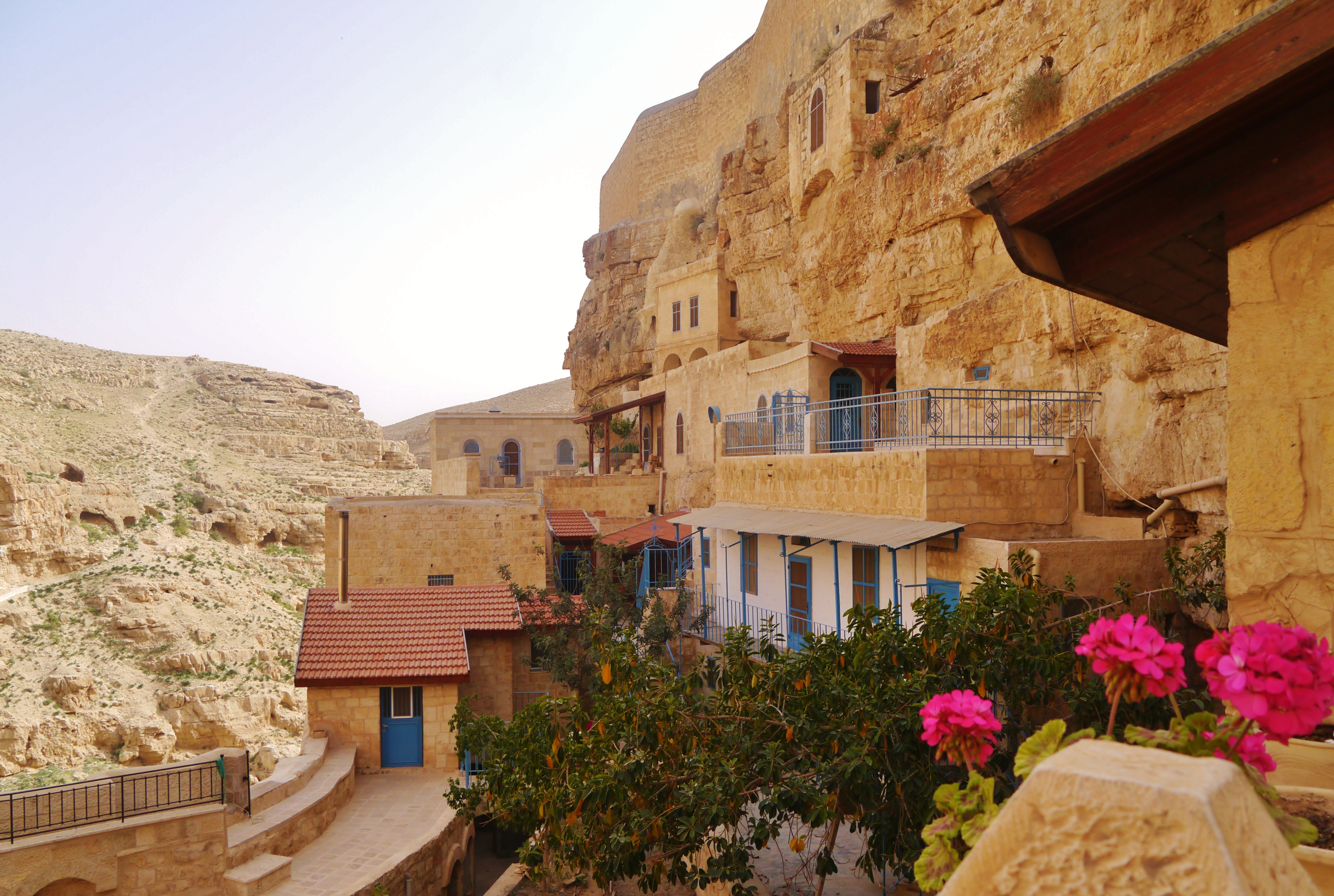 Mar Saba Monastery at the Judean Desert, Palestine